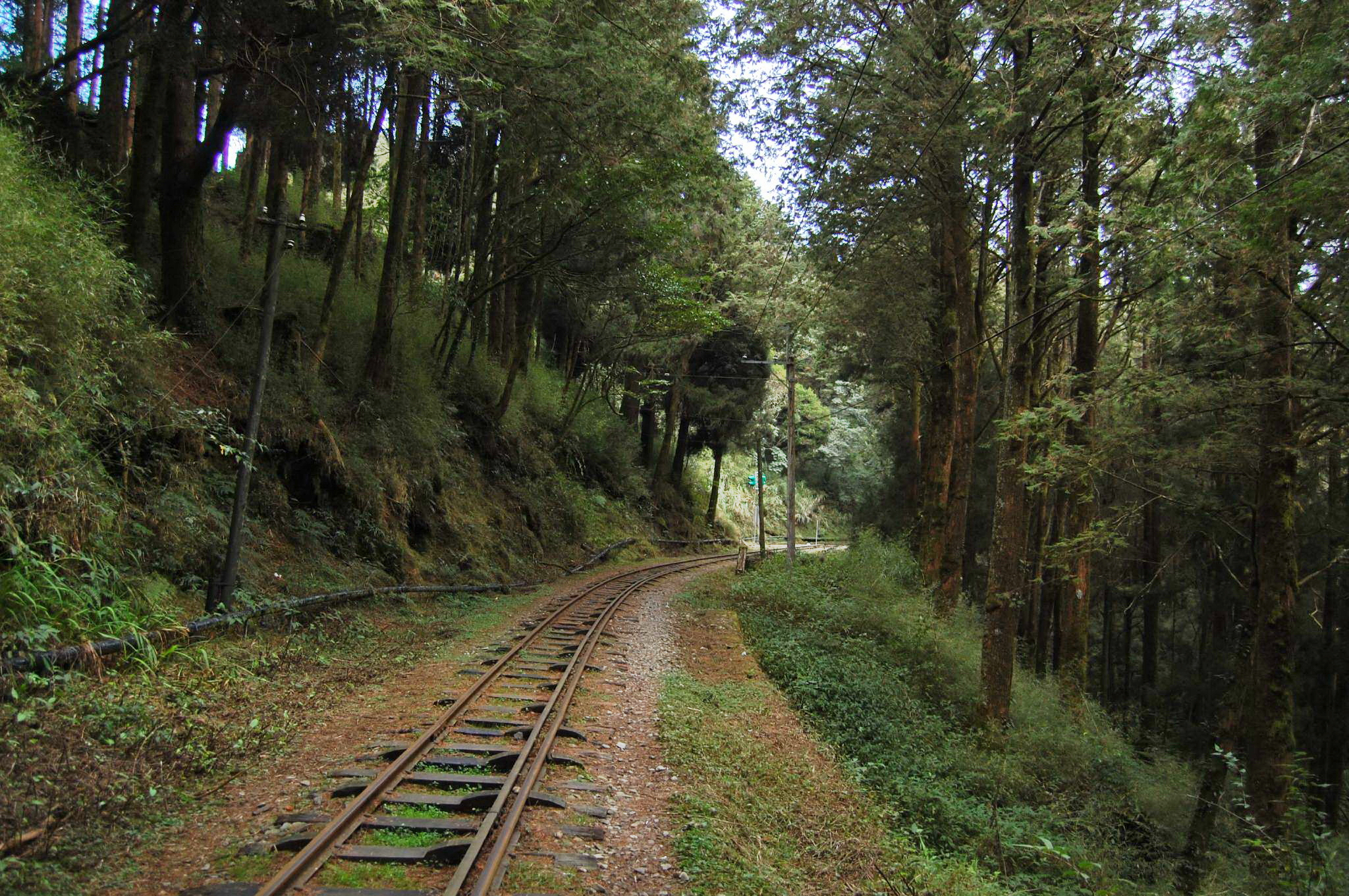 Alishan Forest Railway Mianyuei Line 阿里山森林鐵路眠月線